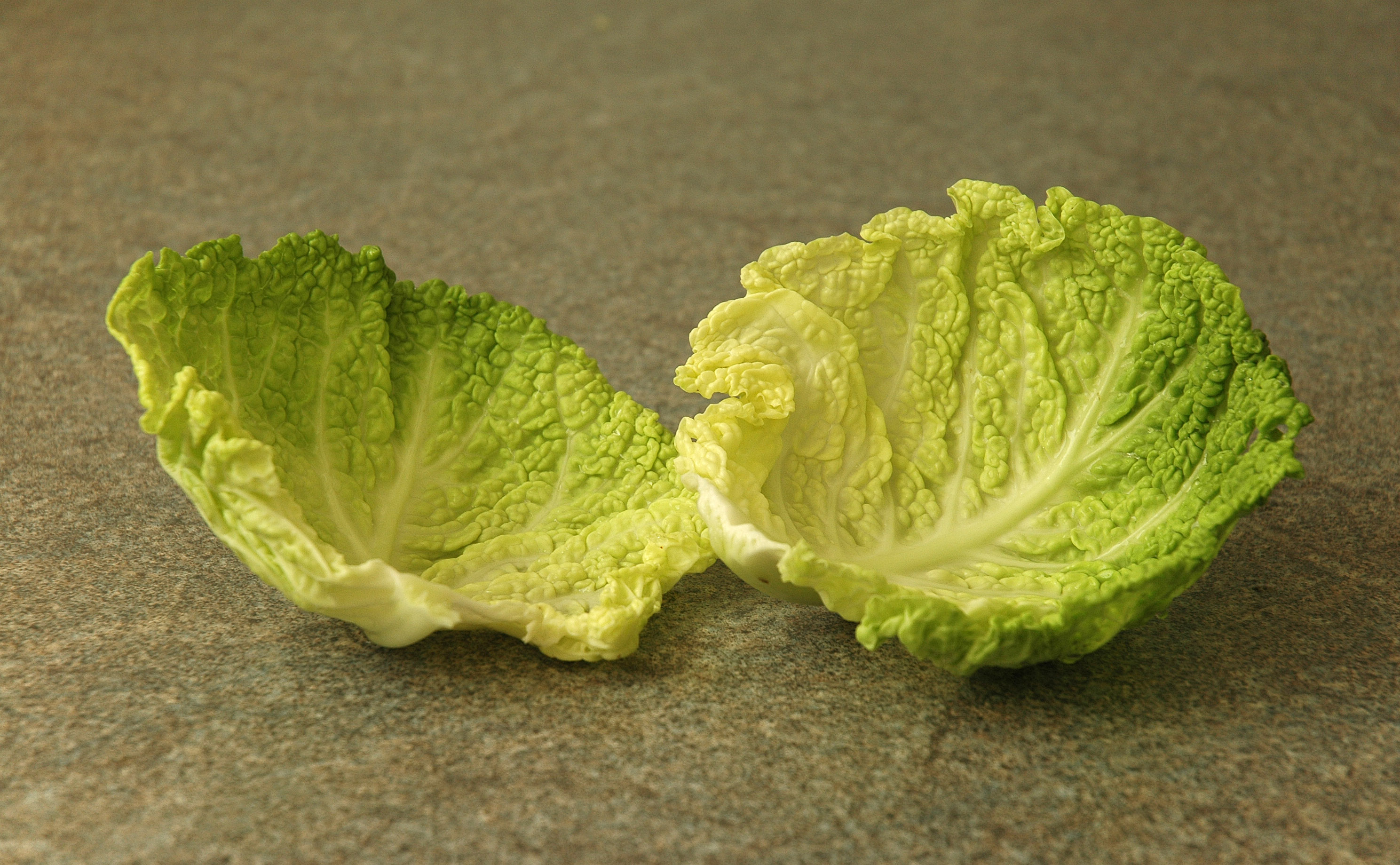 Savoy cabbage